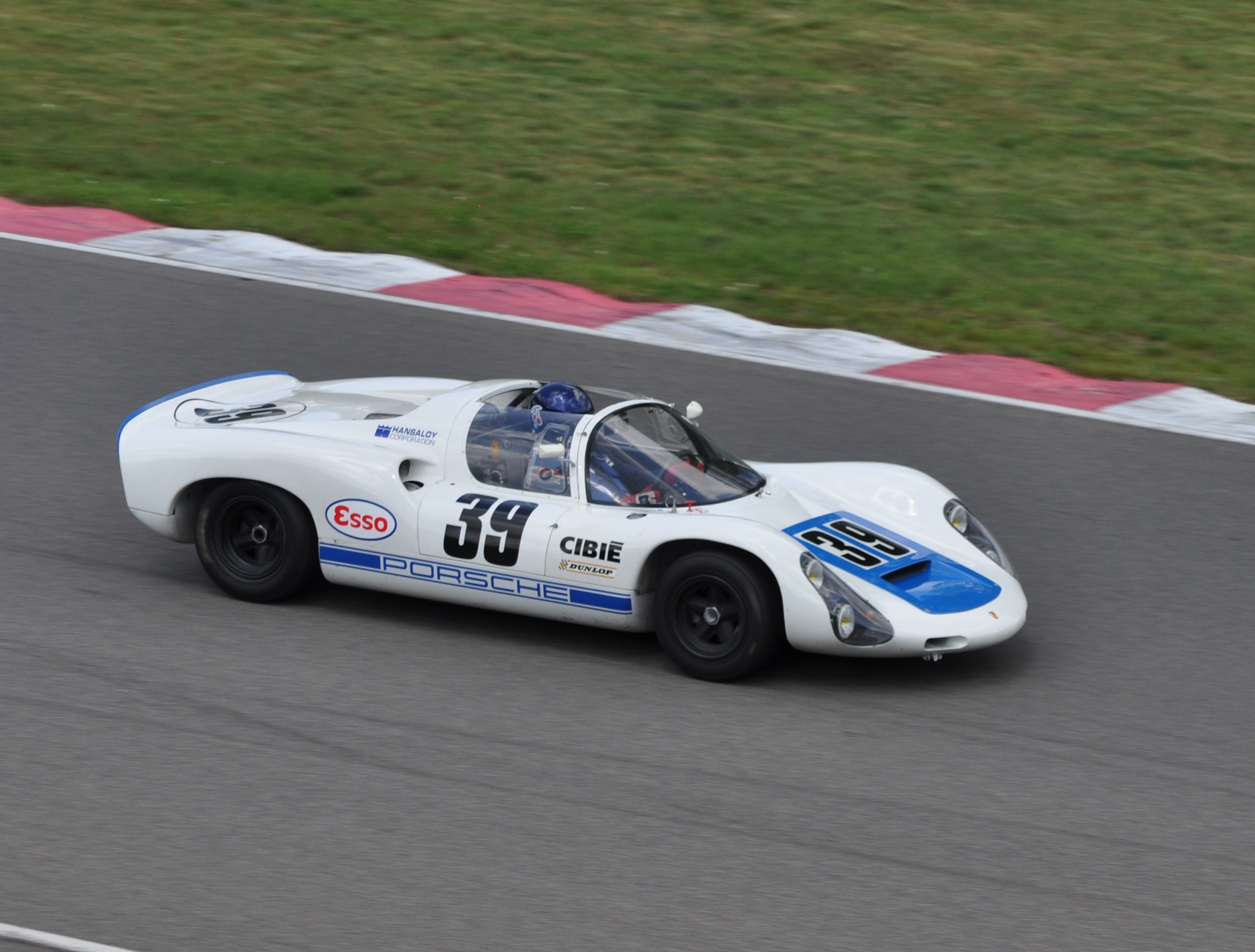 A Porsche 910 sports racing car, dropping down from the Namerow corner at Circuit Mont-Tremblant during the 2010 Legends of Motorsport meeting.